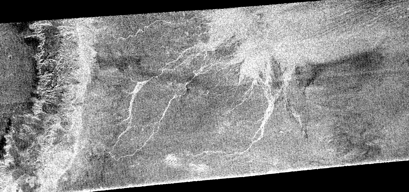 Radar image of Titan surface by Cassini. 128 pix/deg (2.85 pix/km), image width is about 500 km. Part of radar strip T3 (February 15, 2005). On the left the rim of Menrva crater is seen. Bright river system in the center and bright feature in upper right are Elivagar Flumina (look a map with names). The image was cropped, rotated on 5 deg counterclockwise (to make north on the top) and it's contrast was increased.